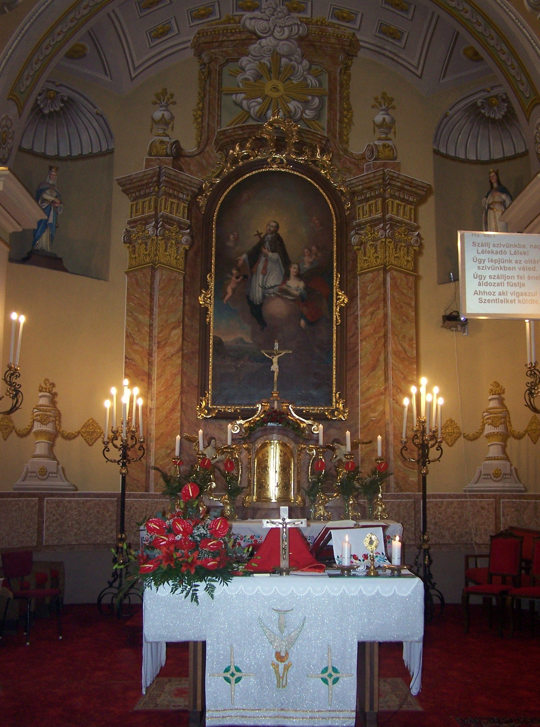 Catholic church of Rákoscsaba, Budapest (Hungary)